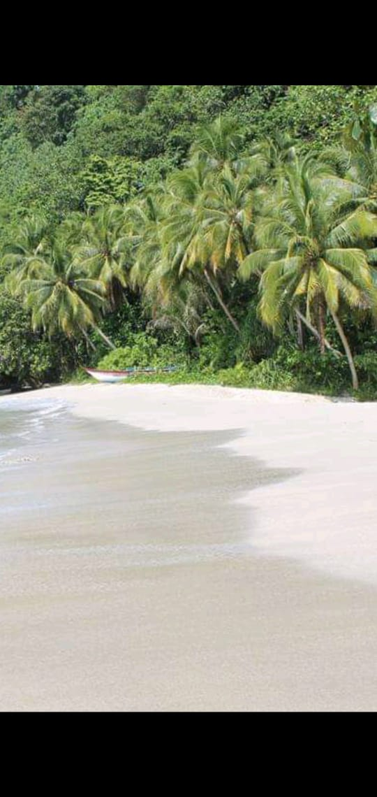 beautiful beach sinokisi demta